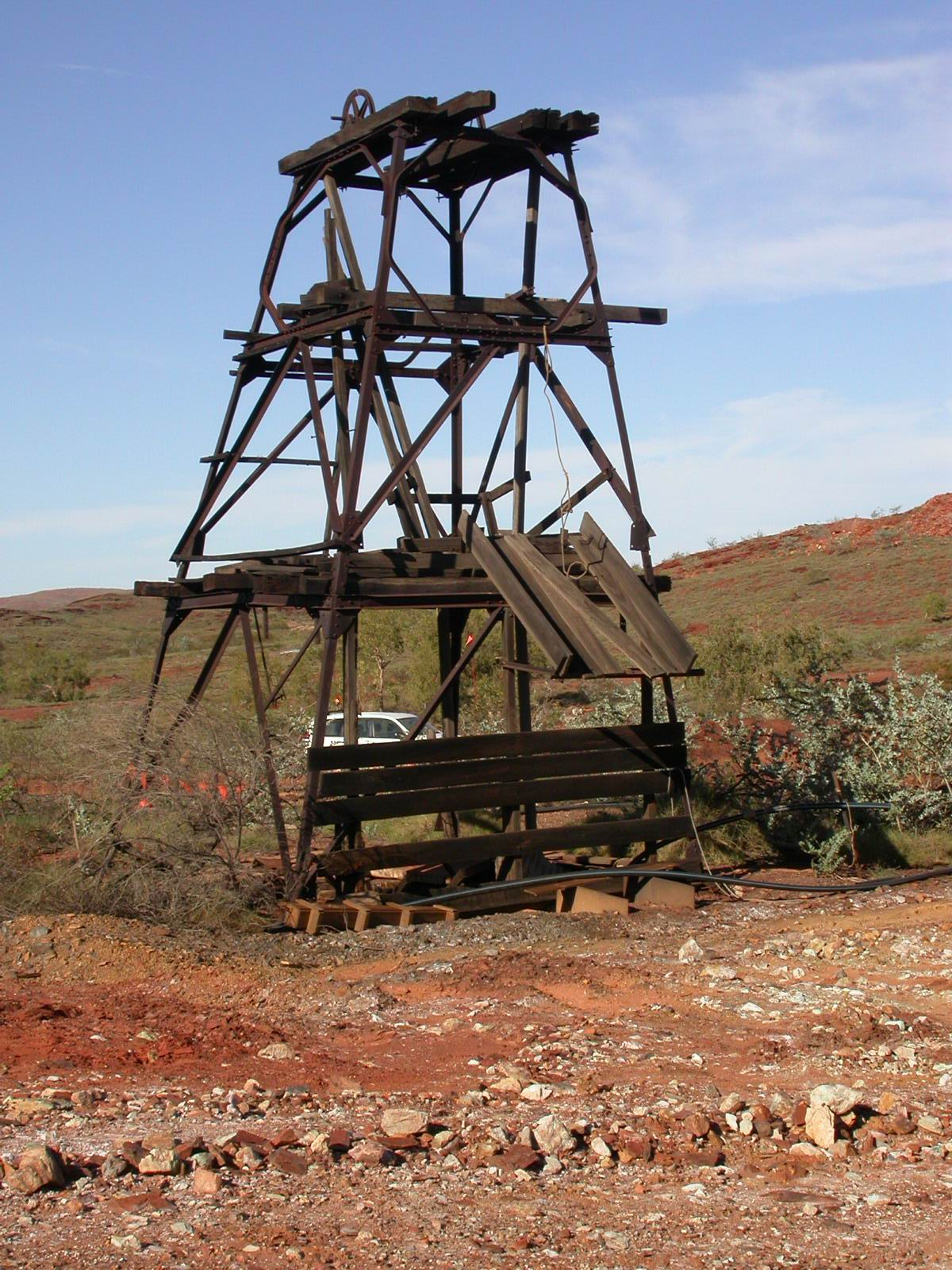 Author: Rolinator. This is an image of the old ~1920 or 1960's's head frame of the underground workings, Whim Creek Mine, Western Australia. Image released for free use.